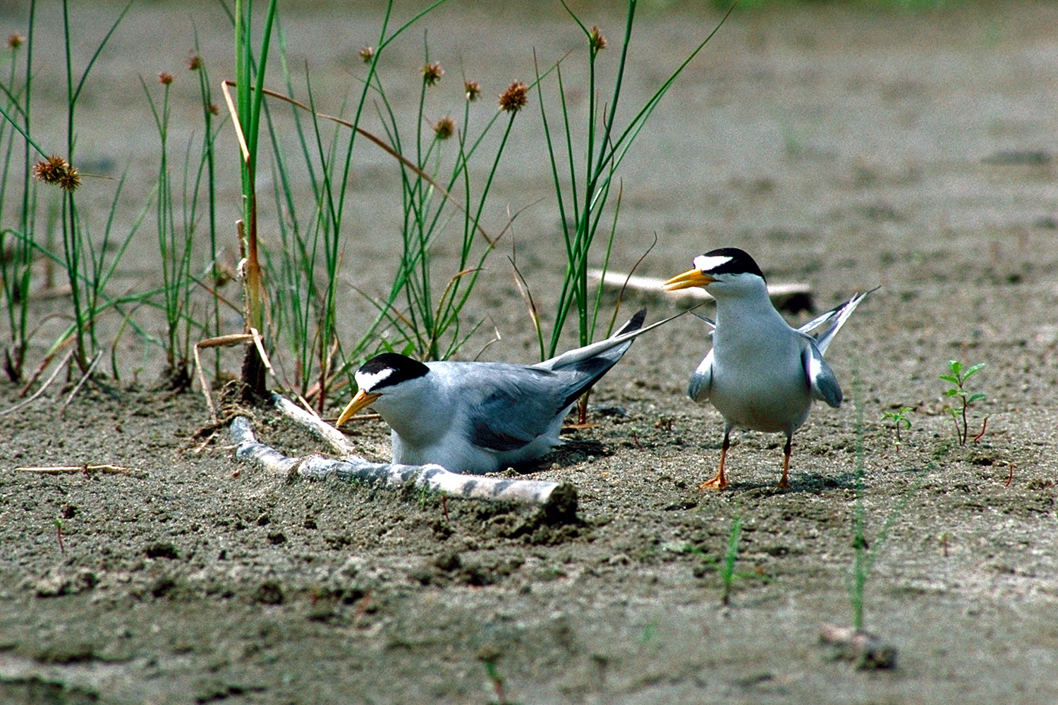 A nesting least tern pair in the sandbar habitat on the Missouri River below Gavins Point Dam. Yankton, South Dakota, USA.